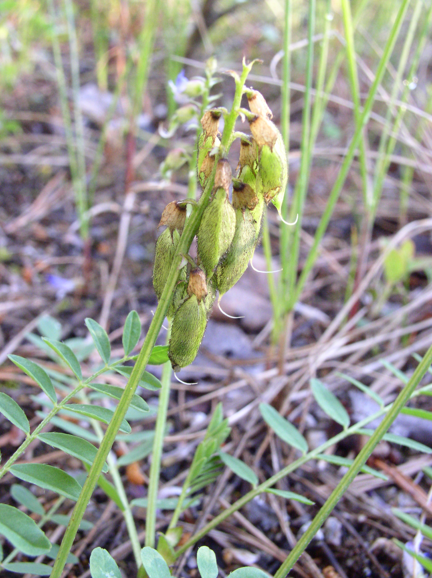 Astragalus alpinus fruits (pods) in Savonlinna, Finland.